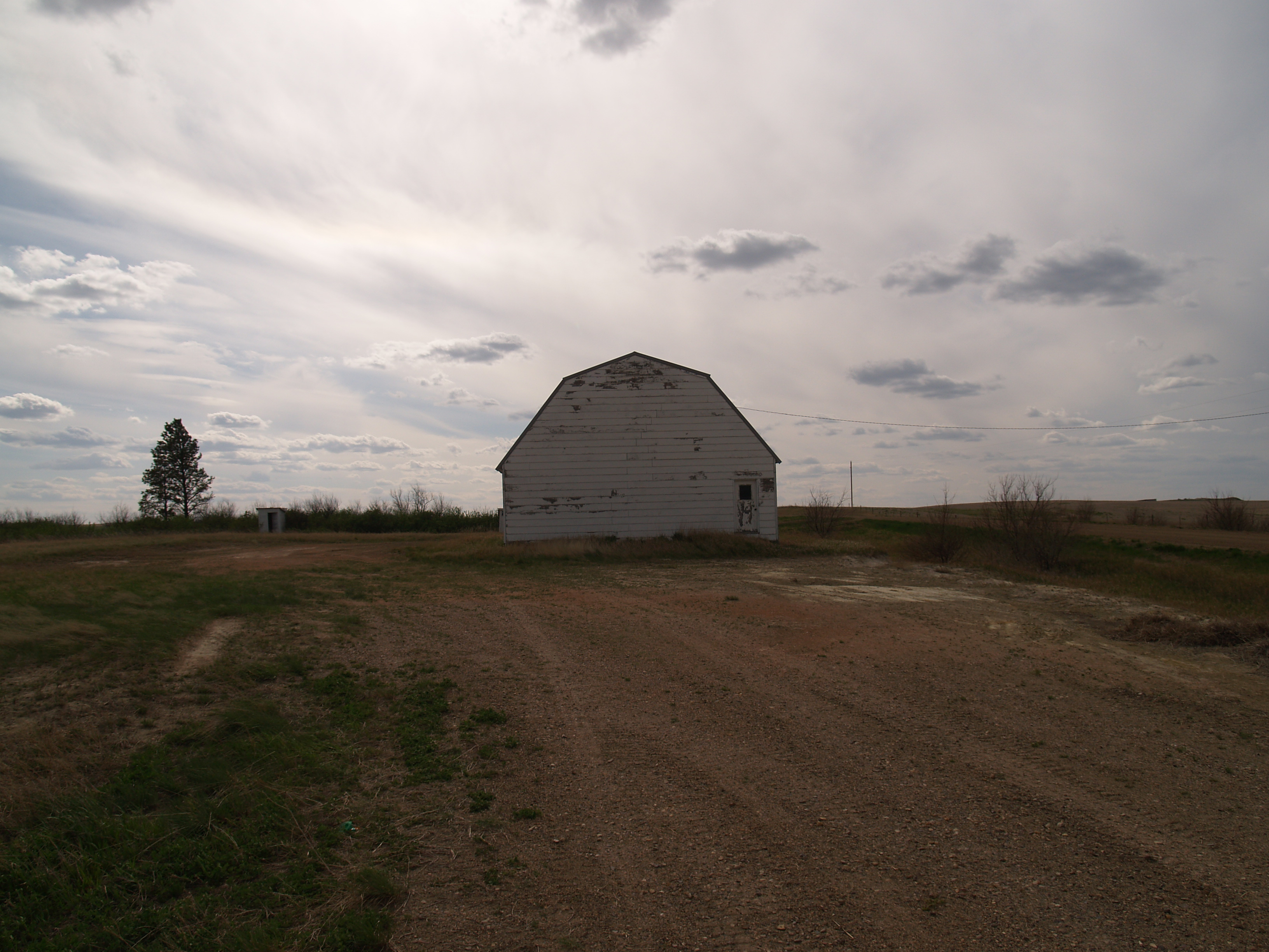 A barn in Alpha, North Dakota